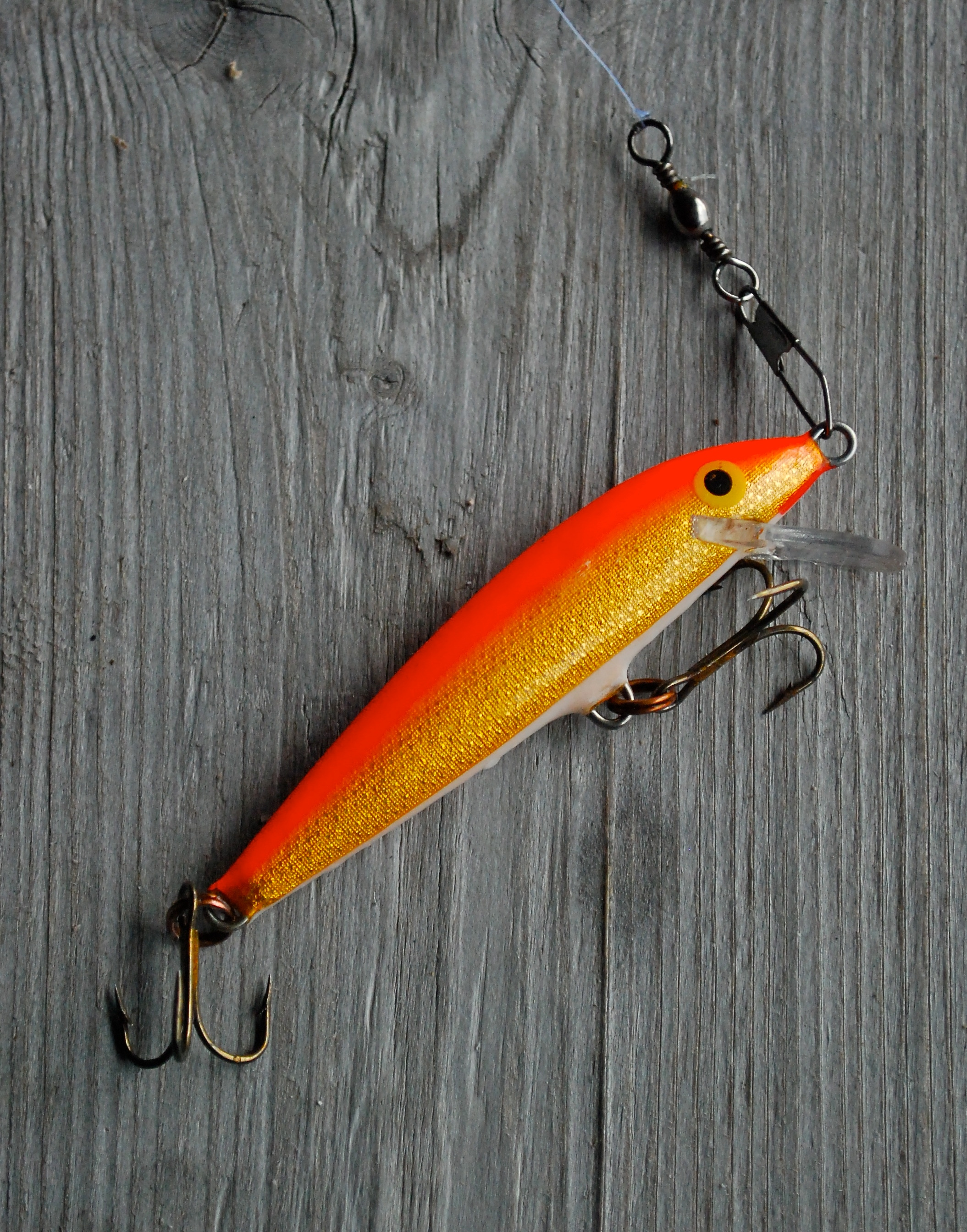 Rapala Wobbler.